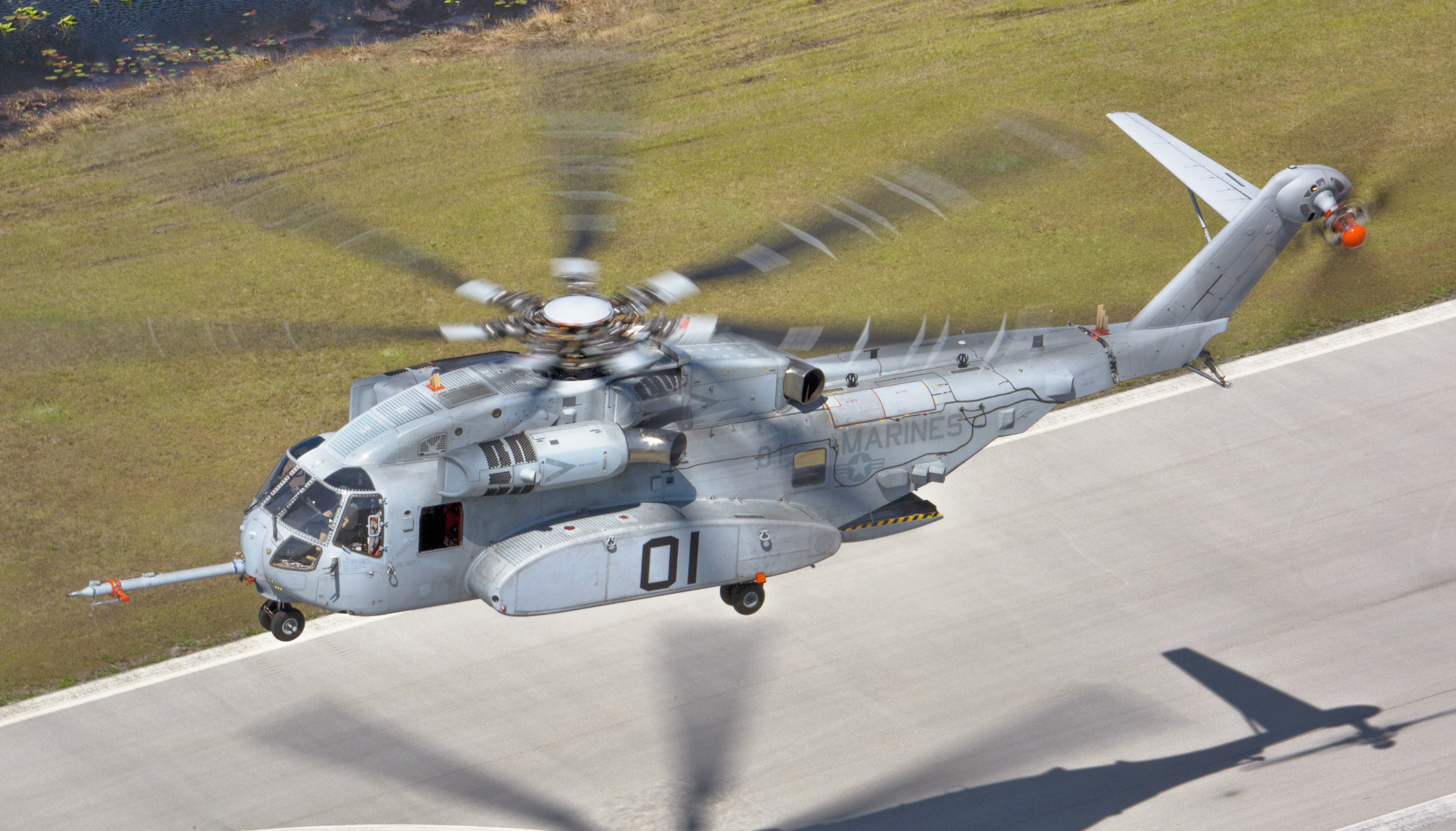 A Sikorsky CH-53K King Stallion flies a test flight in West Palm Beach, Florida (USA) on 22 March 2017. Lockheed Martin announced the CH-53K its Defense Acquisition Board assessment that approved for the aircraft to begin low-rate initial production on 4 April 2017. The CH-53K is scheduled to completely replace the Sikorsky CH-53E Super Stallion by 2030.